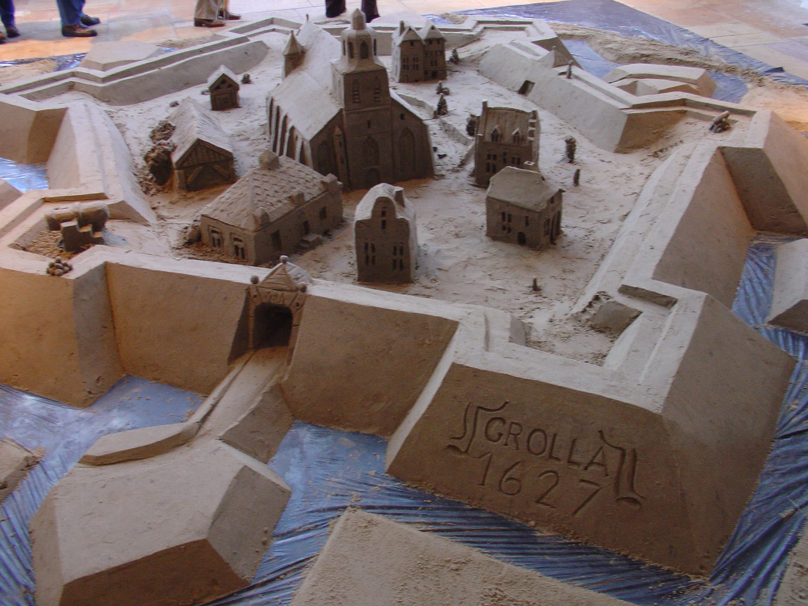 Sandcastle depicting (an impression of) the fortress Grolle (Groenlo) during the time of its siege in 1627. In the center is the Calixtus church, still in Groenlo in 2008. Made for the occasion of the reenactment Slag om Grolle (Battle for Grolle), in 2005.